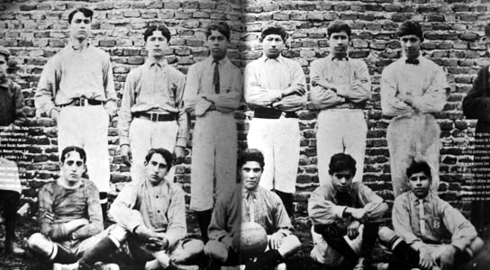 The first Belgrano de Córdoba photo, taken in 1906. The club had been founded a year before.